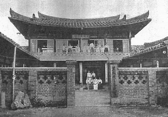 Kisaeng School in Heijo(Pyongyang)